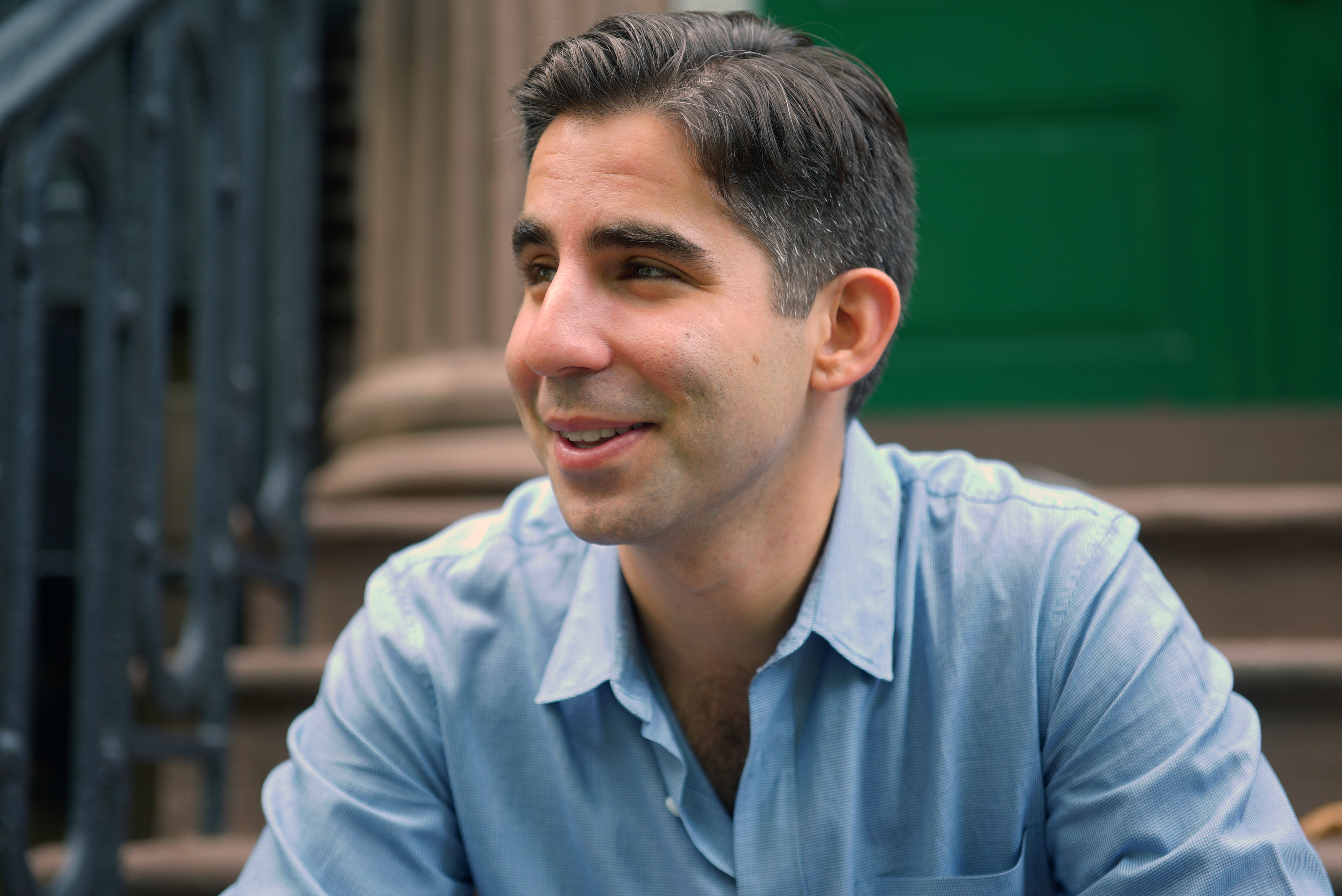 Photo of Alex Elias taken in Greenwich Village